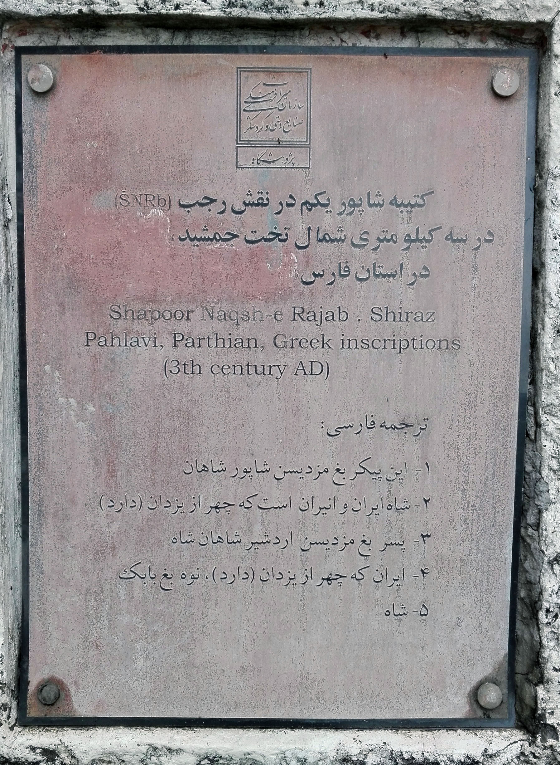 taken in inscription garden, Tehran